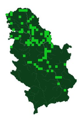 Rasprsotranjenje vrste u Srbiji (Alciphron)